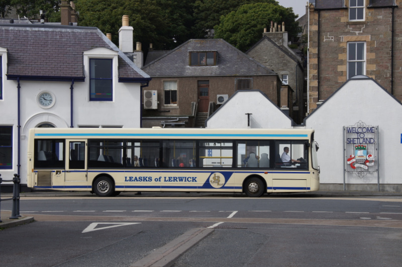 Leasks of Lerwick bus on the Esplanade, Lerwick. The travel agent shop nearby owned by the same company has closed, but the transport business continues.